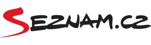 Logo of Czech internet company Seznam.cz